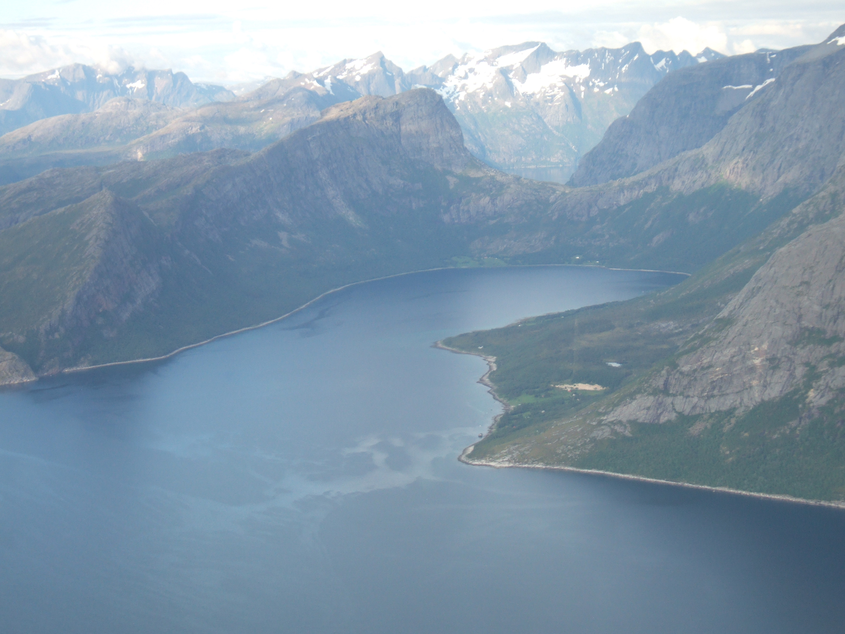 Brattfjorden in Steigen, Nordland, Norway